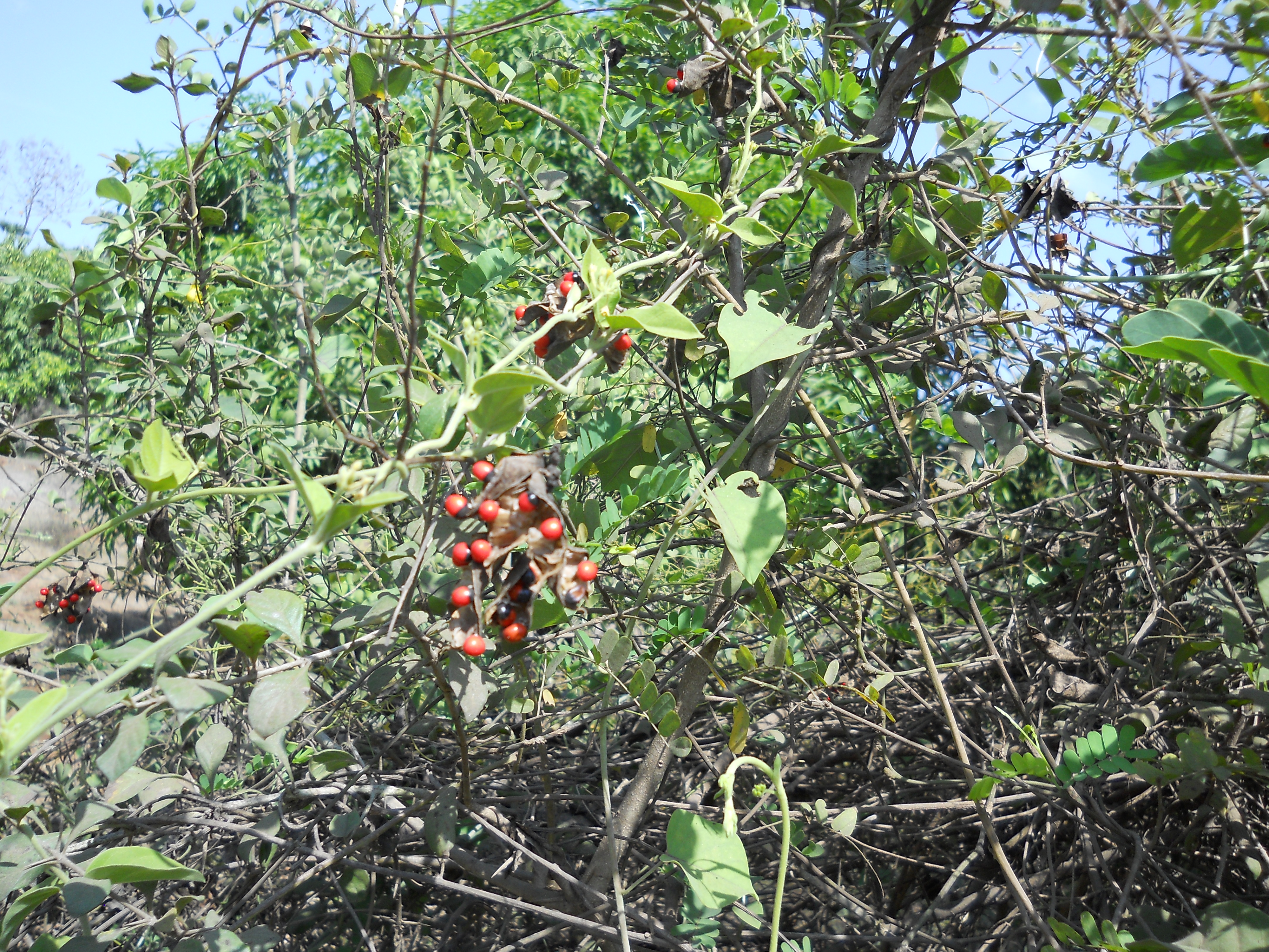 Abrus precatorius